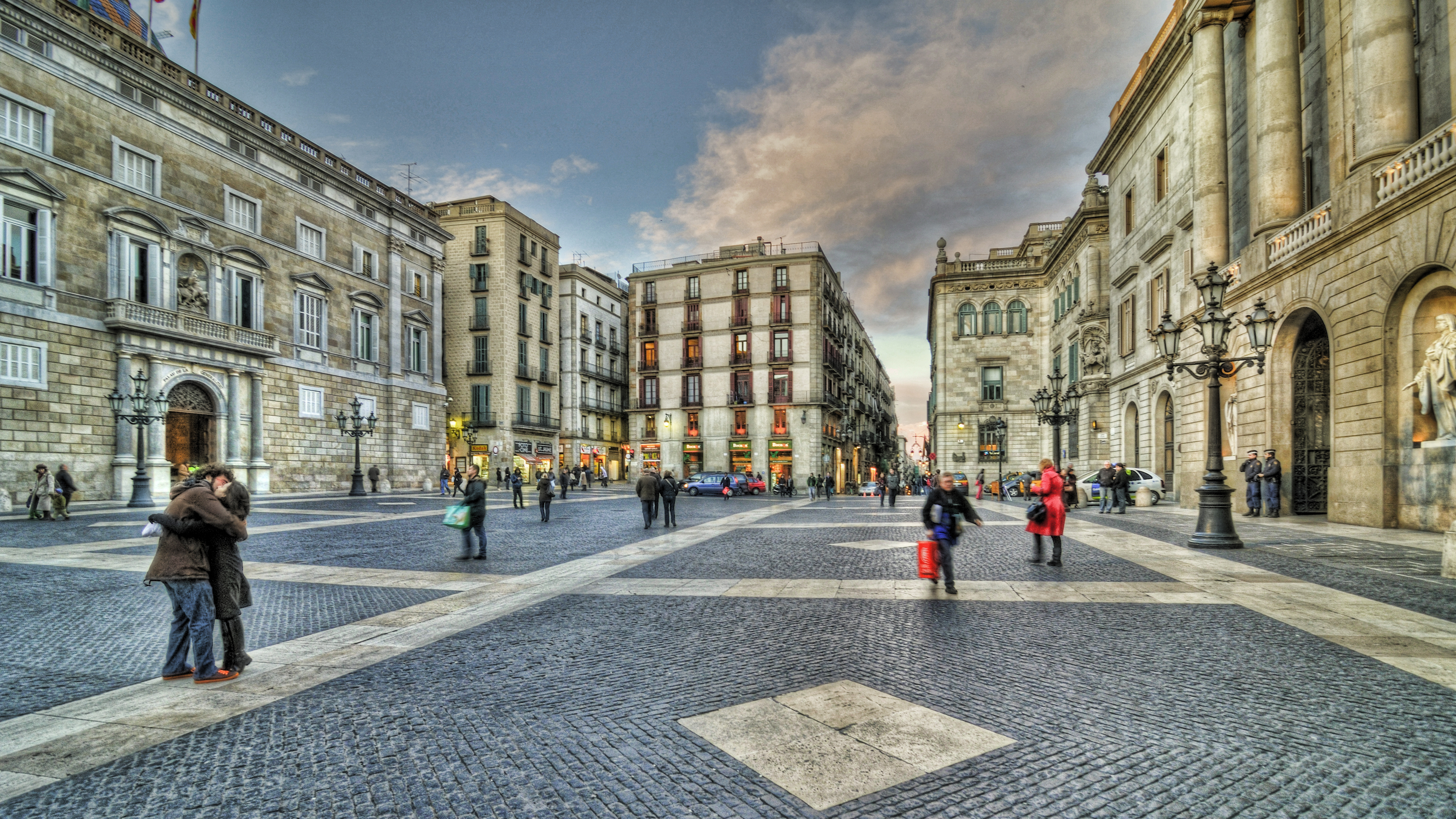 Plaza of Saint Jamie on the left is the Casa de la ciutat de Barcelona on the right is the Palau de la Generalitat de Catalunya HDR From One shot - bracketed EV and processed in Photomatix Don't mind the P.D.A on the left. it's common in Spain. See where because Flickr maps SUCK BIG TIME [?]